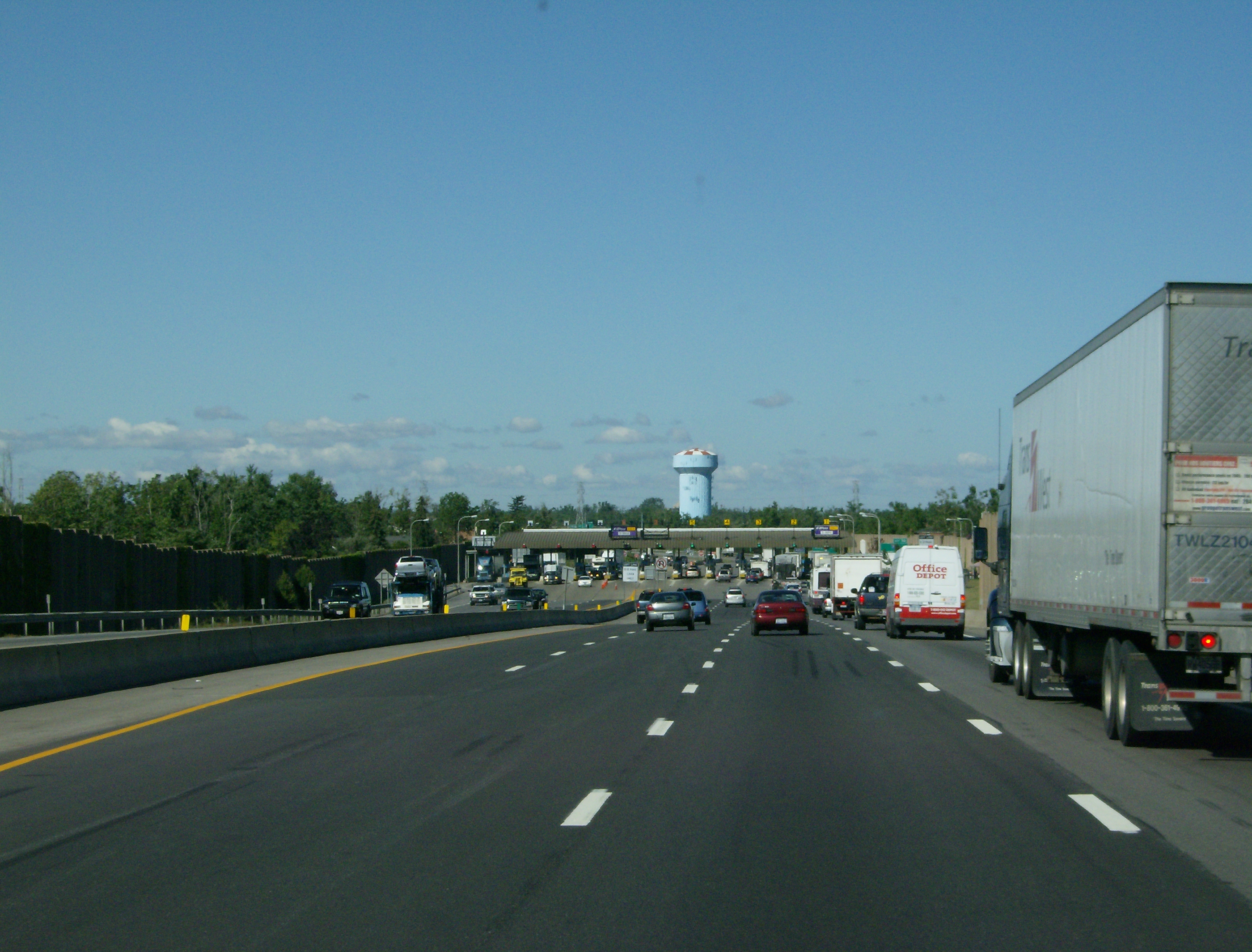 Westbound on the New York State Thruway (Interstate 90) approaching the Williamsville toll barrier, the northwest end of the mainline's major closed ticket system.